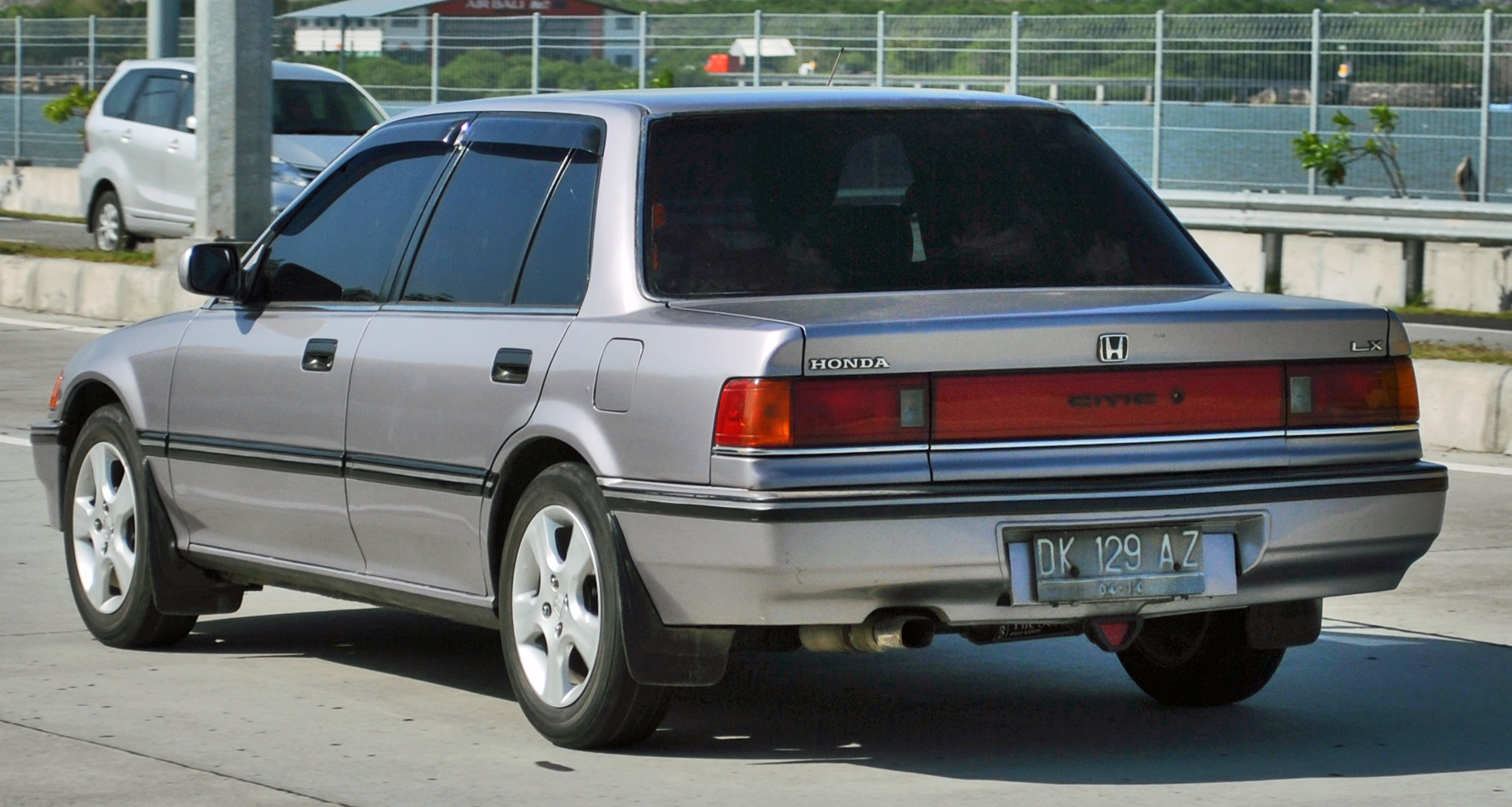 Fourth generation Honda Civic LX sedan (or sold in Indonesia as Honda Grand Civic) in Benoa, Bali, Indonesia. Still, one of very common old saloons in Indonesia